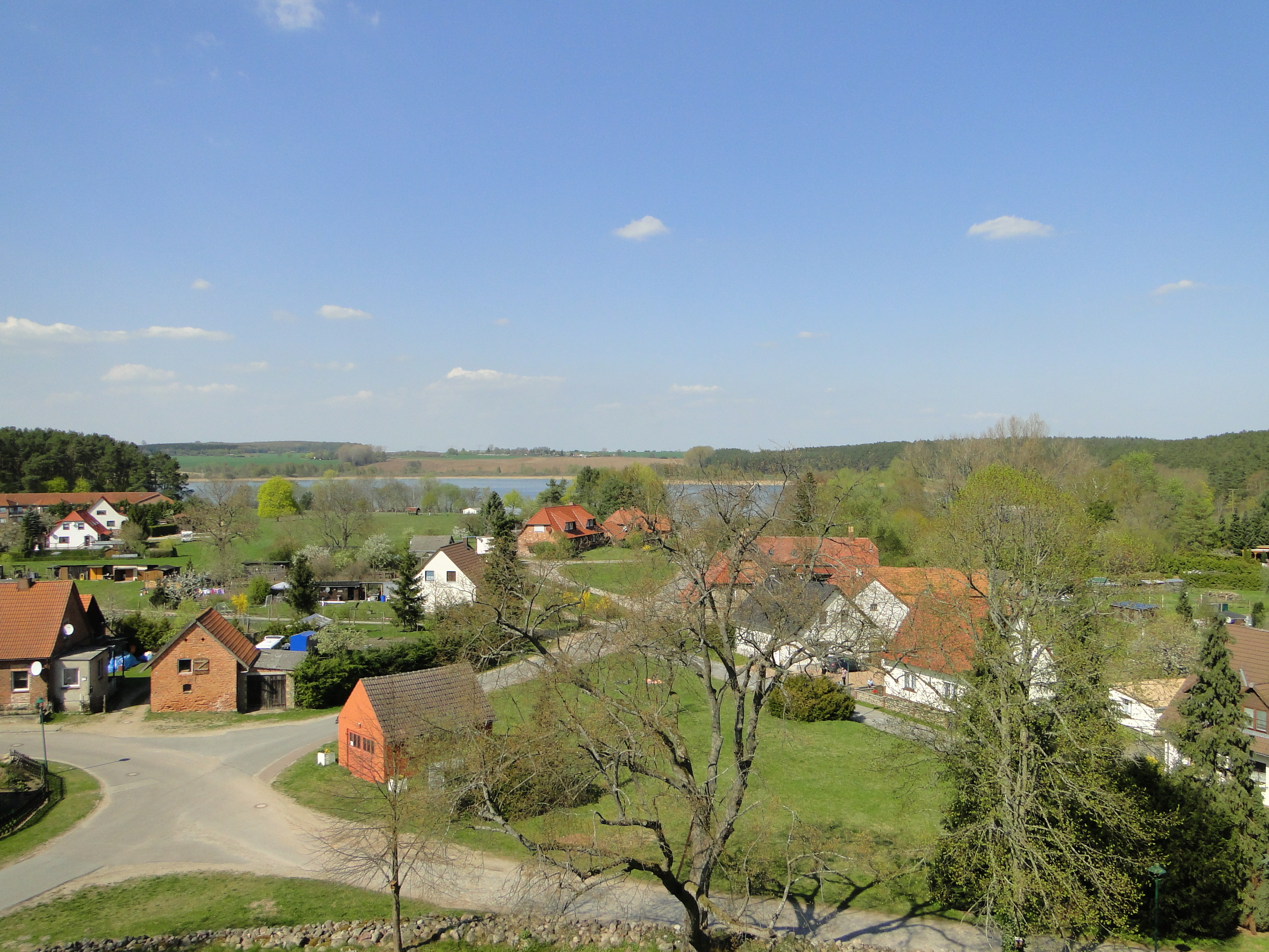 Village view from church tower, in the background the Lohmer See in Lohmen, district Güstrow, Mecklenburg-Vorpommern, Germany